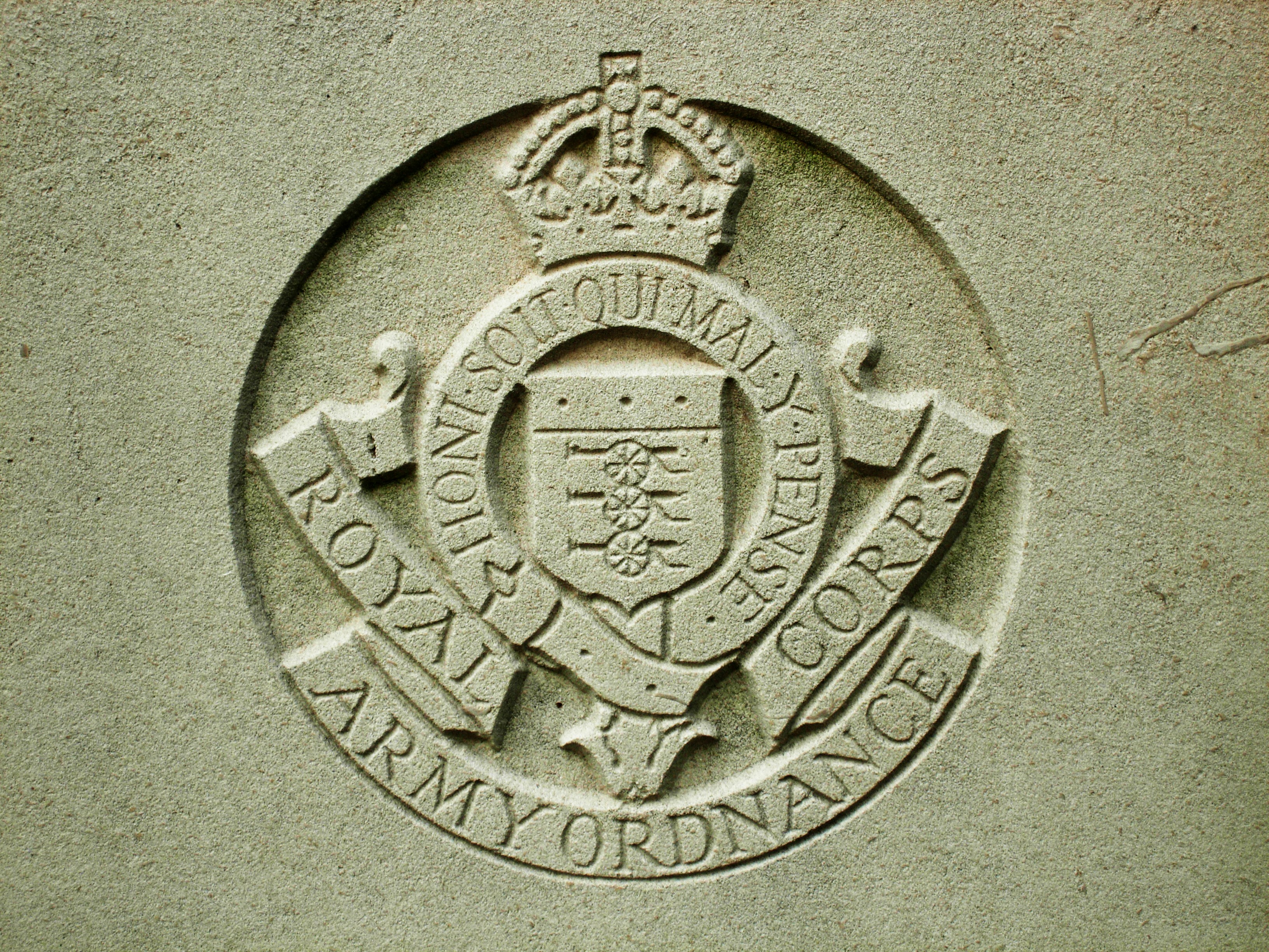 Coat of Arms of the Royal Army Ordnance Corps (in reign of George VI), as inscribed on the grave of late Warrant Officer I F.H.W. Haynes (died 1943), at Stanley Military Cemetery, Hong Kong